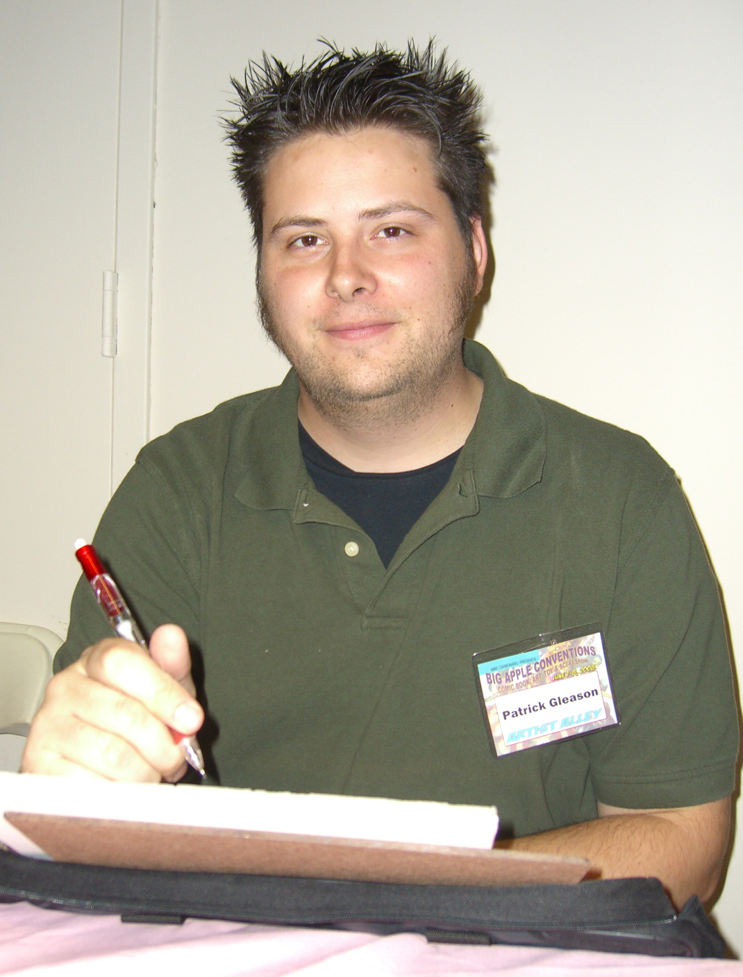 Comic book creator Patrick Gleason at the Big Apple Comic Convention in Manhattan, June 8, 2008. Photo by Luigi Novi. This photo may be used, modified and published for any purpose, only if the photographer is visibly credited in each instance in which it is used. (See licensing information below.) For more information on my photos, you can contact me here.